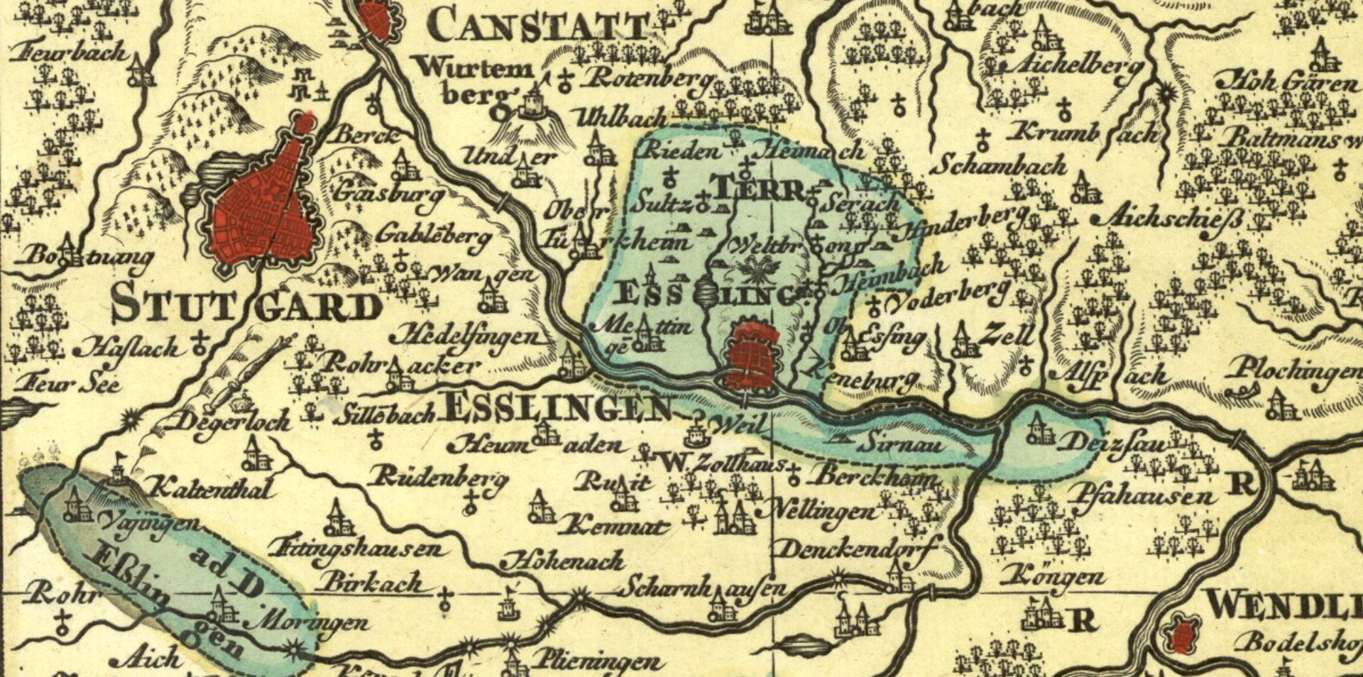 Detail of an early 18th century map of Swabia showing the territory of the Free Imperial City of Esslingen (Reichsstadt Esslingen) made of one main part with the town of Esslingen (now Esslingen am Neckar) plus a smaller exclave to the southwest. Both were entirely surrounded by the Duchy of Württemberg. Detail from map two of a nine-map series centered on the Circle of Swabia titled Suevia Universa by Matthäus Seutter and based on information by Jacques de Michal. Published c 1725-1727.